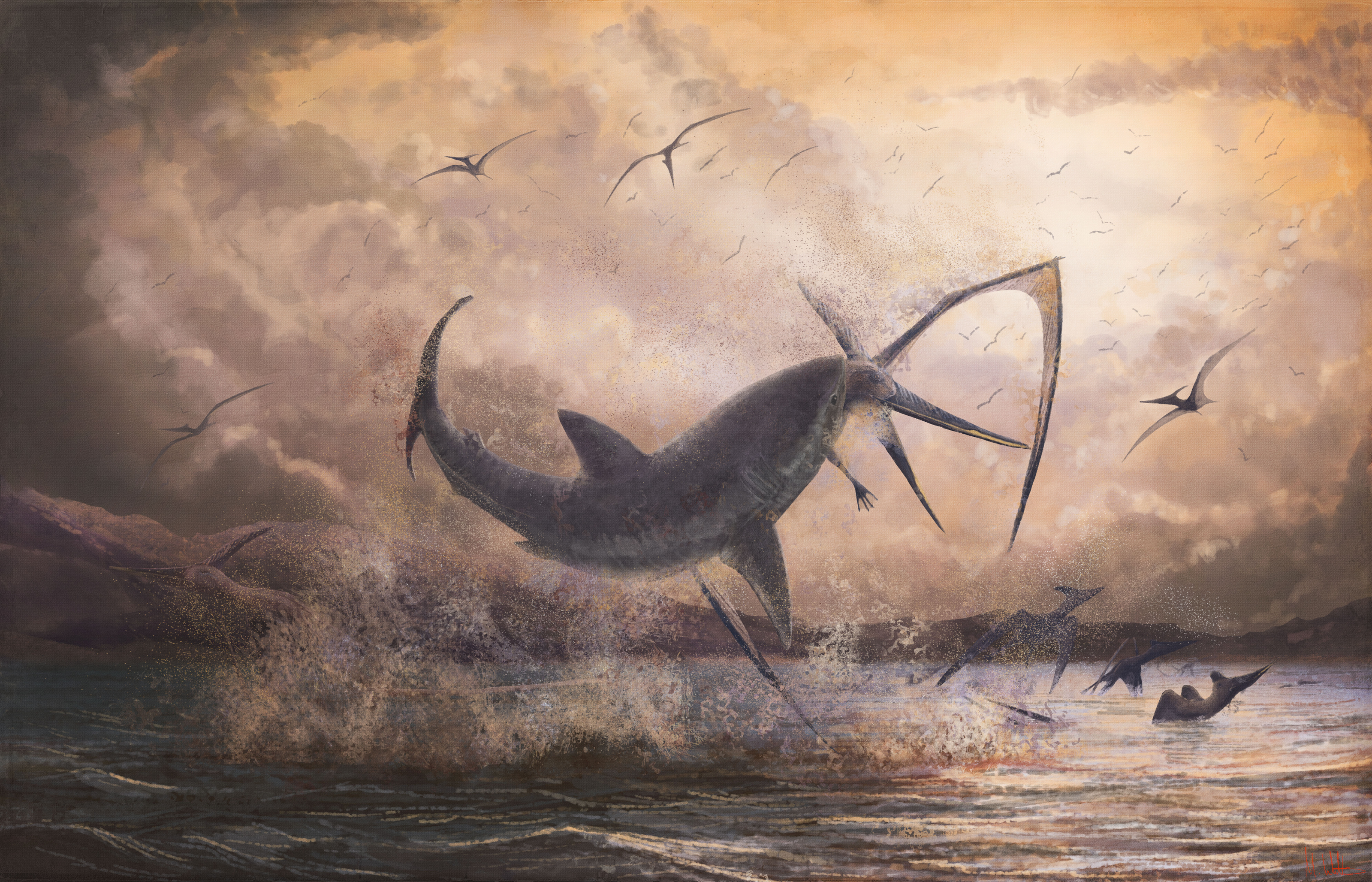 Artist's caption from source: "Restored scene of Cretoxyrhina attacking Pteranodon. Life reconstruction of a c. 2.5 m long breaching Cretoxyrhina mantelli biting the neck of a 5 m wingspan Pteranodon longiceps, a scene inspired by LACM 50926. The predatory behaviour of this scene is speculative with respect to the data offered by the specimen, but reflects the fact that Cretoxyrhina is generally considered a predatory species, the vast weight advantage of the shark against the pterosaur (see text), and the juvenile impulse of the artist to draw an explosive predatory scene."